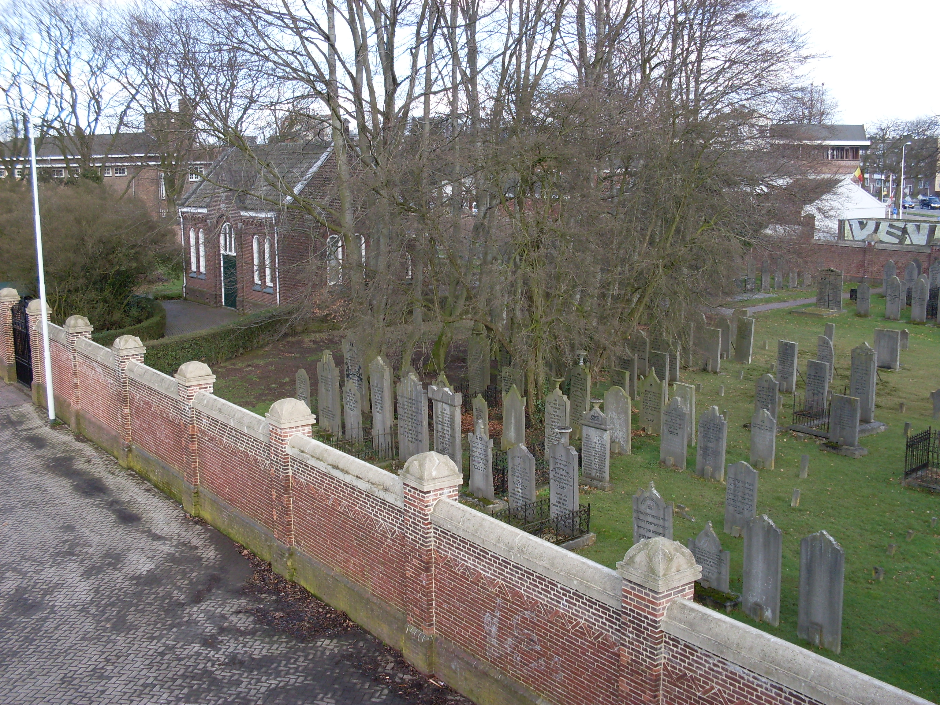 Jewish cemetery Eindhoven